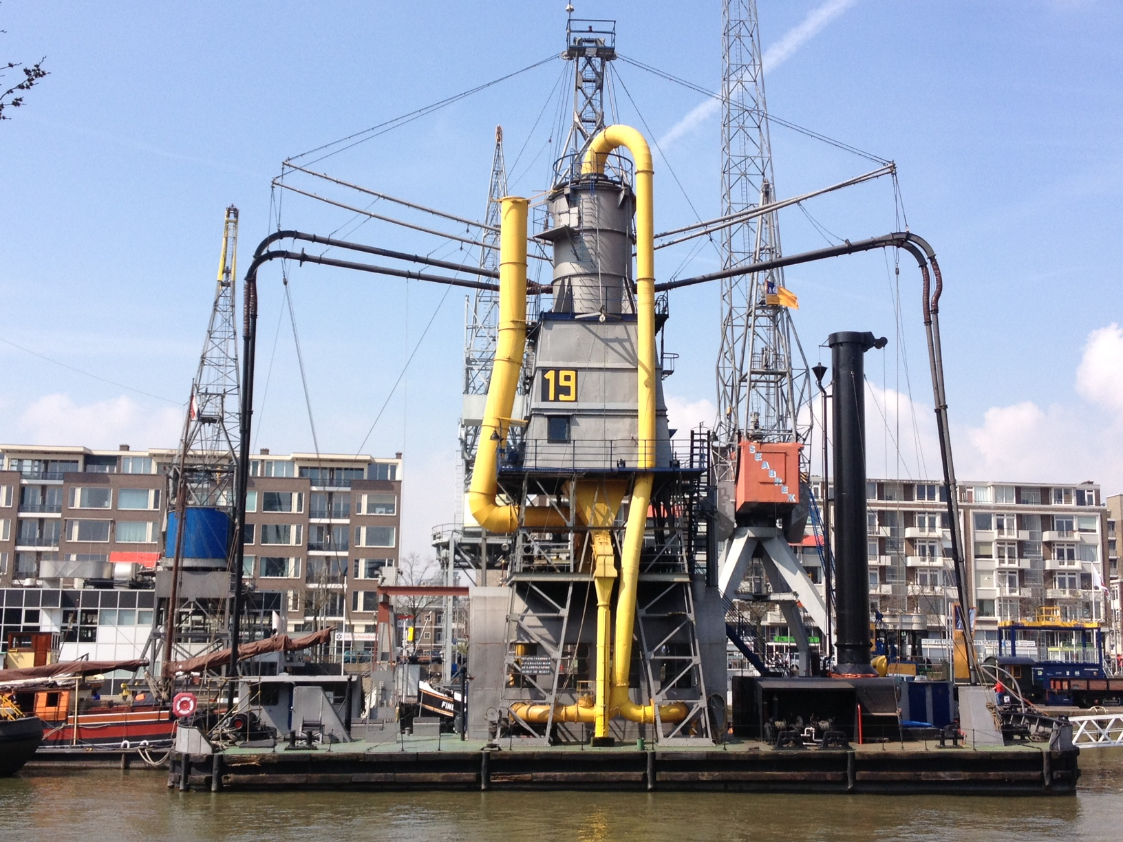 Grain elevator from 1926 as seen in the Havenmuseum of Rotterdam, the Netherlands